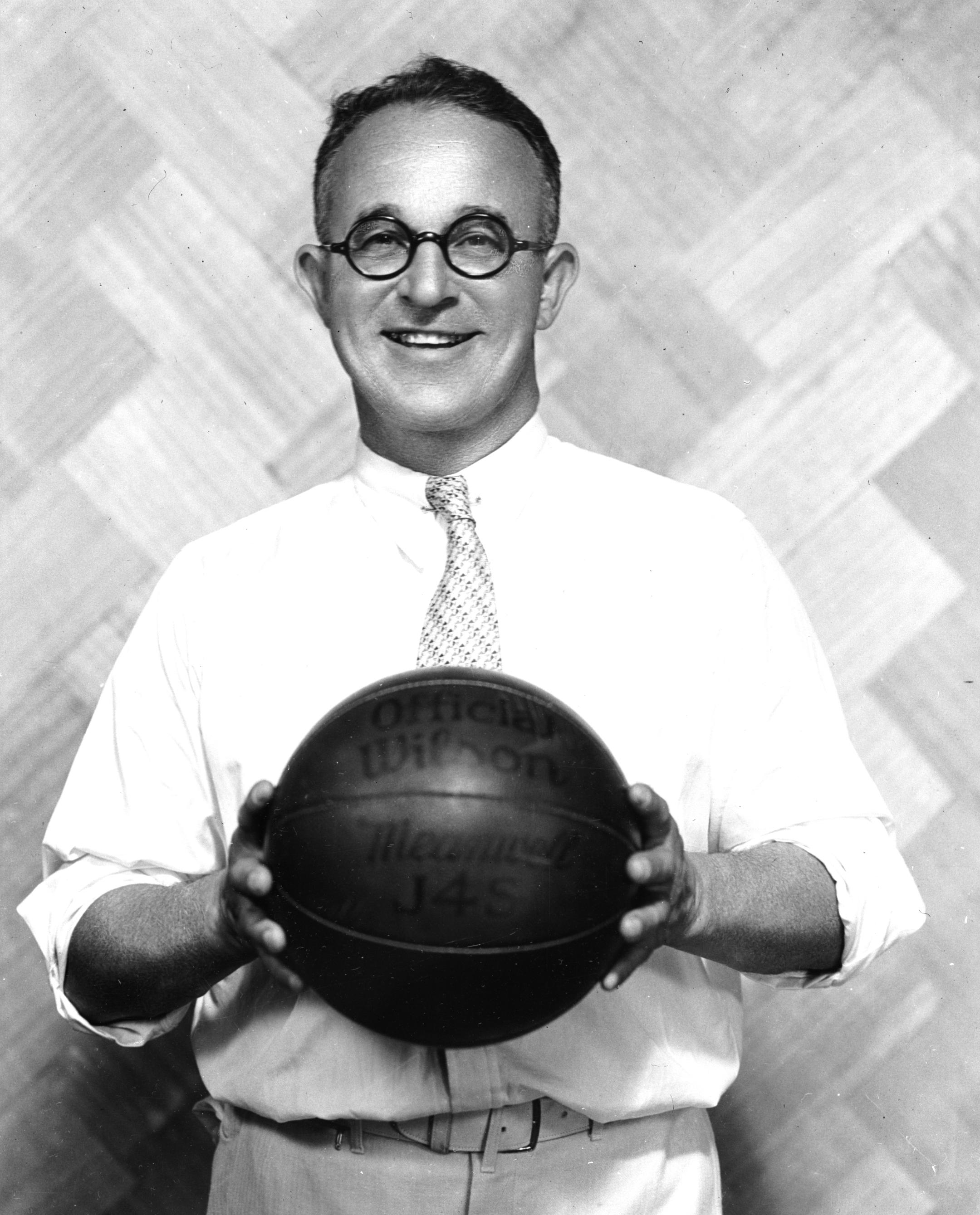 Walter Meanwell (Walter Meanwell), former coach of the University of Wisconsin Badgers basketball team